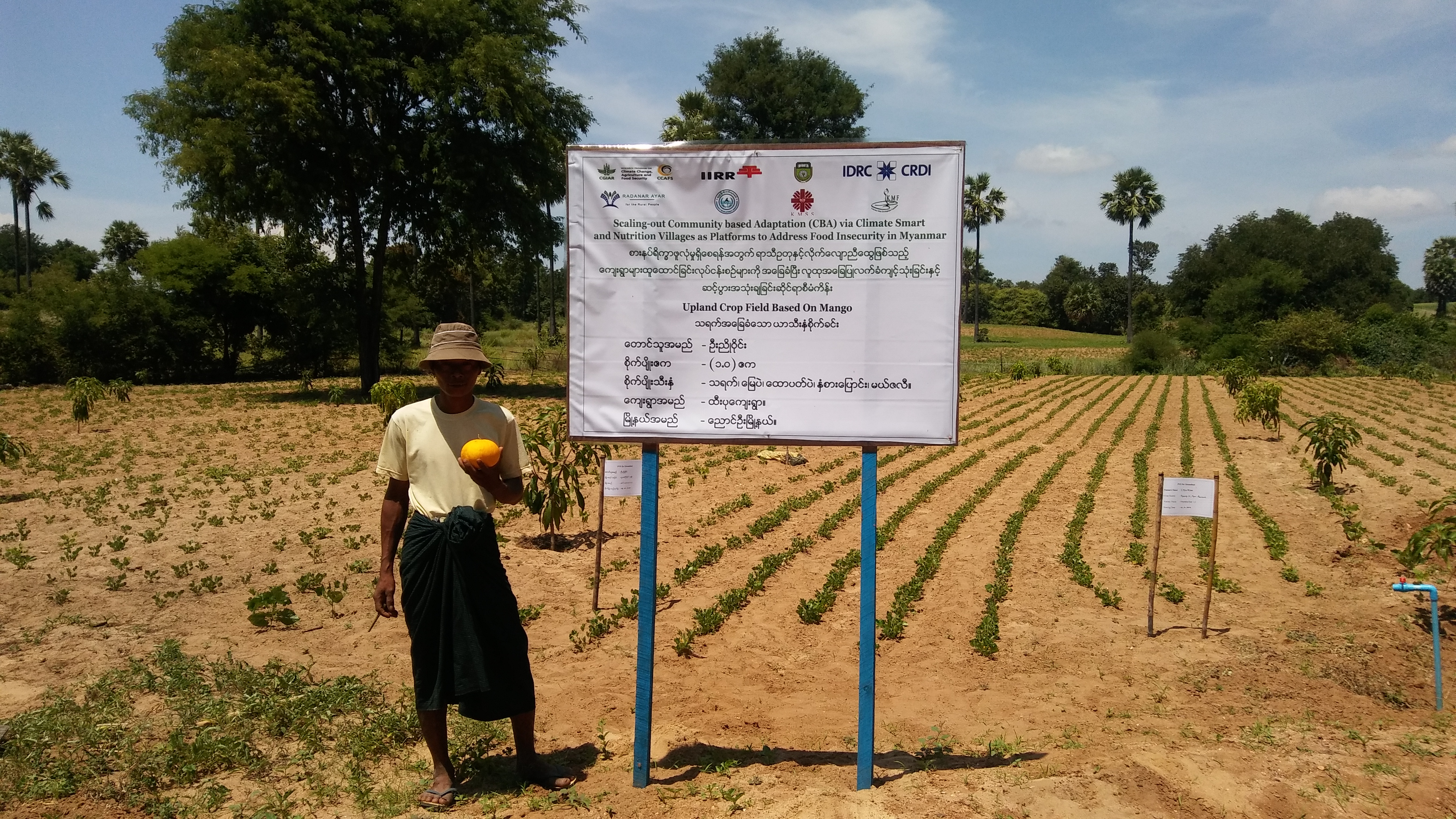 A local farmer poses in front of a mango field pertaining to a Climate Smart Village in Myanmar. The project was funded and organized by the CGIAR, IRDC, CDA, KMSS, KMF, IIRR, and Radanar Ayar.